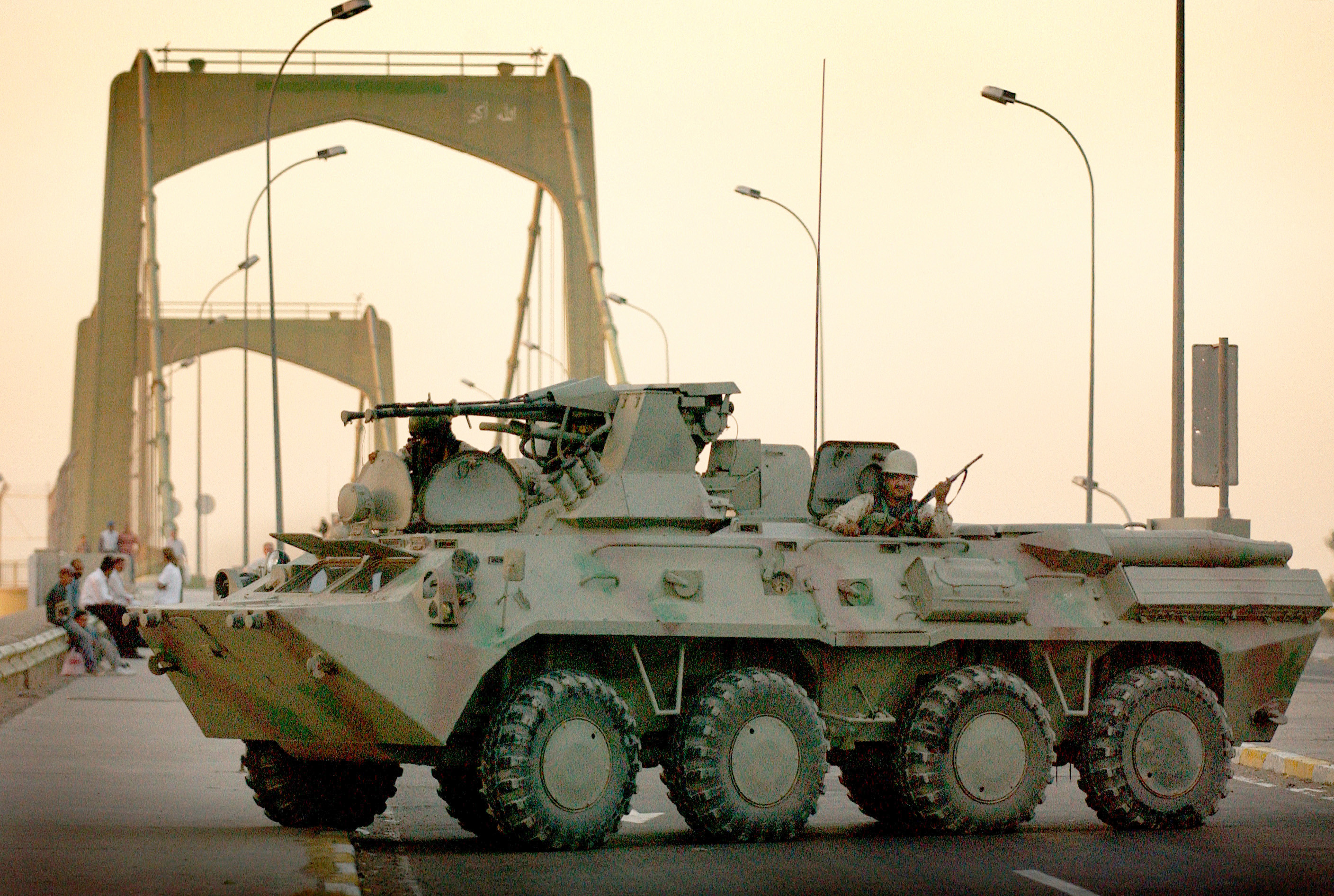 In the early morning hours, Iraqi National Guard (ING) troops move a BTR-94 (8×8) Armored Personnel Carrier (APC) into position on the 14th of July bridge in Baghdad, Iraq (IRQ), to provide security for the Iraqi Democratic National Conference during Operation IRAQI FREEDOM.